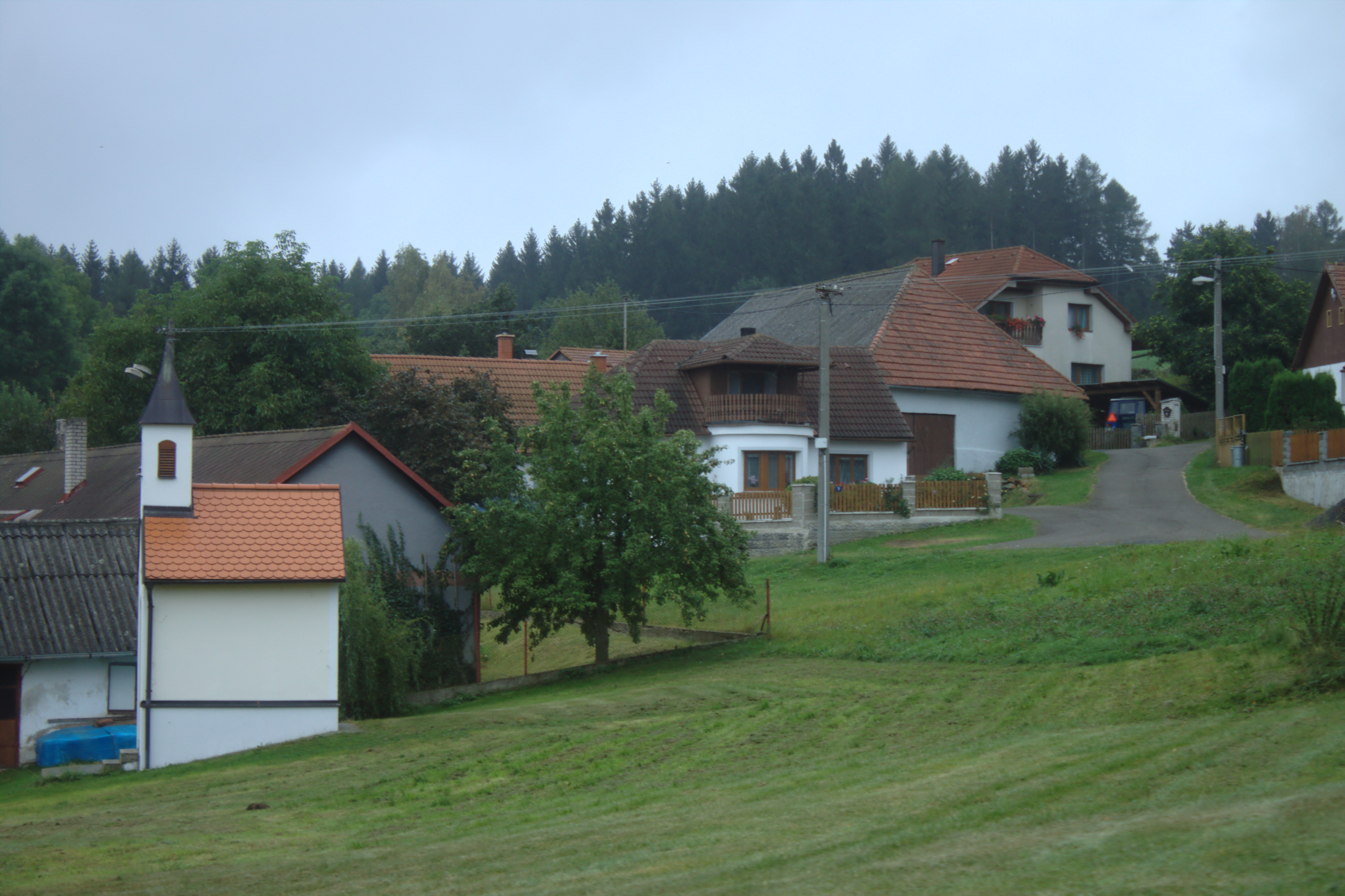 A chapel located at the main common in the village of Buková, Central Bohemia